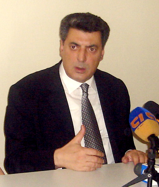 Stepan Demirchyan - is an Armenian politician, leader of the People's Party of Armenia.